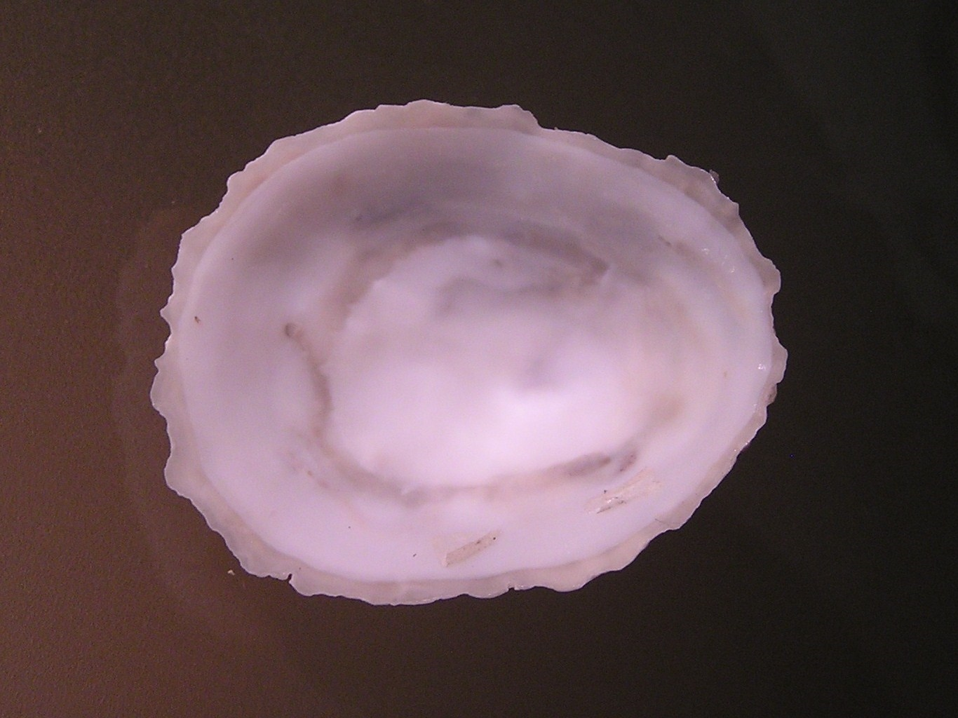 Niveotectura pallida A. A. Gould, 1859; a true limpet from the family Lottiidae;Japan